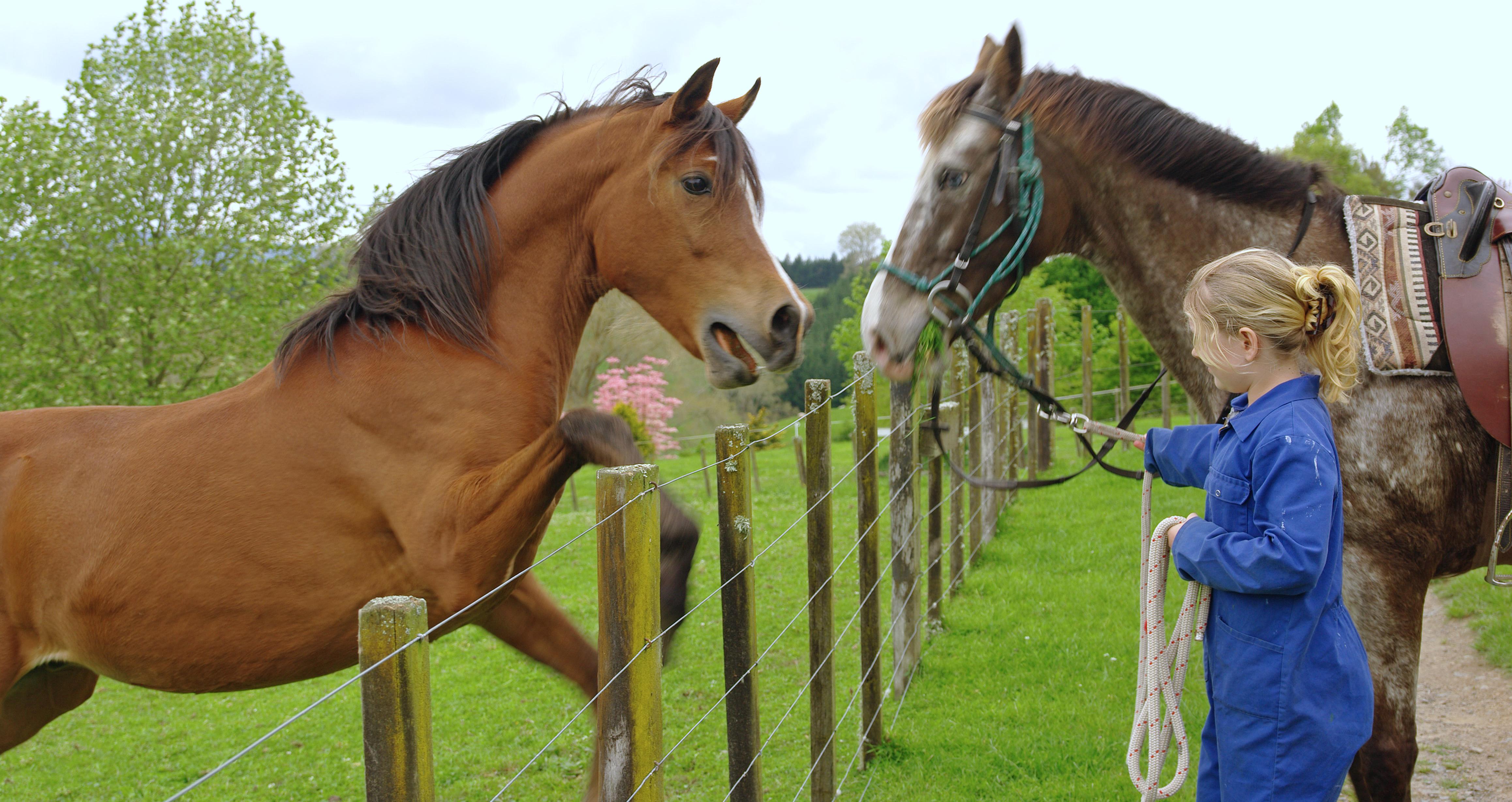 My Grandaughter introduced Little One to the Stallion!!! Umm Not the greatest idea!!! Little One wasn't bothered at all with all the commotion the Stallion caused.